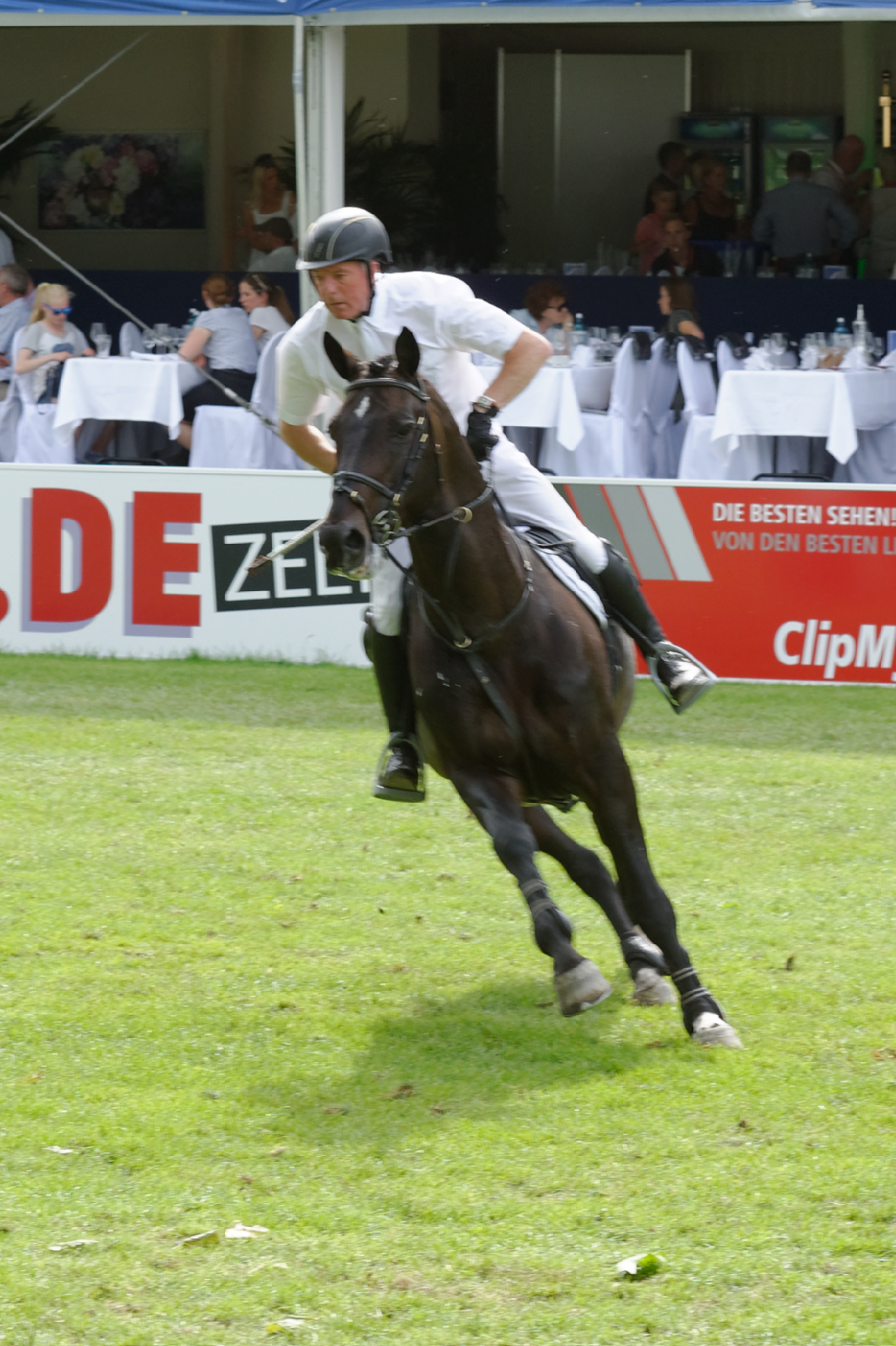 Internationales Pfingstturnier Wiesbaden 2014 The making of this document was supported by the Community-Budget of Wikimedia Germany.